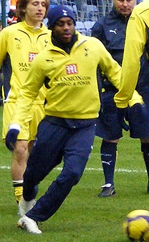 Danny Rose of Tottenham Hotspur This file has been extracted from another file: Tottenham warmup, Wigan Athletic v Tottenham Hotspur, 21st February 2010.jpg